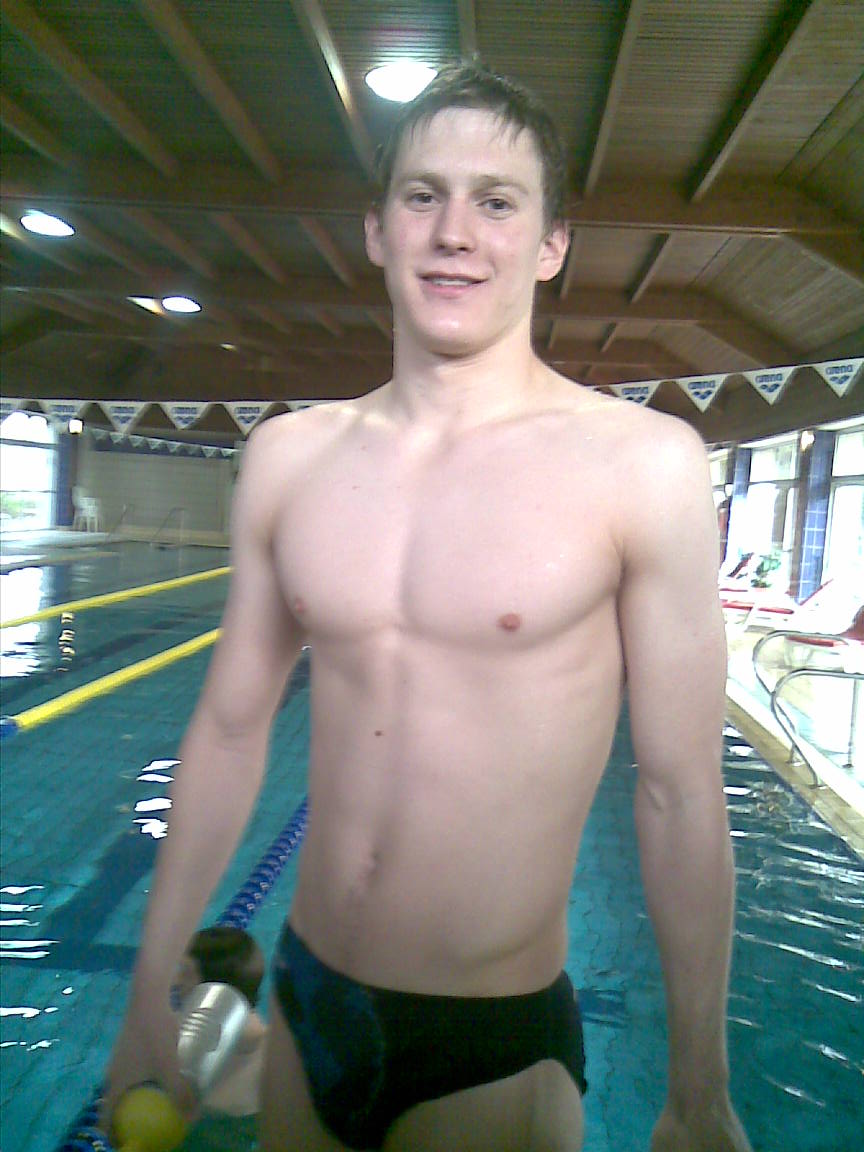 Imri Ganiel, may 2010